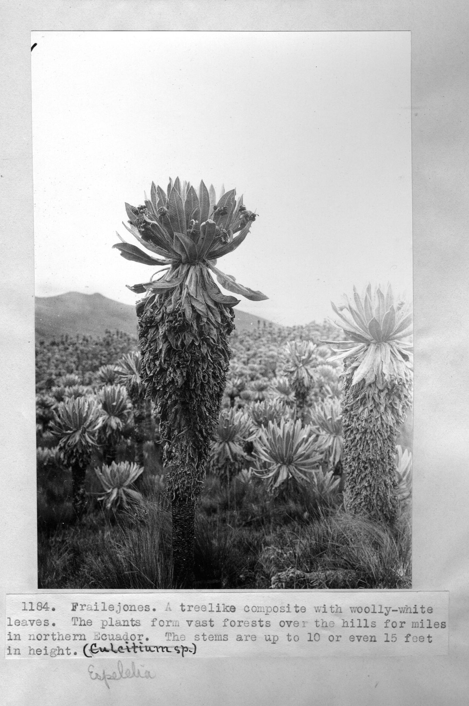 A. S. Hitchcock (1865–1935) Alternative names Hitchc.DescriptionAmerican botanist, university teacher and agrostologistChief botanist for the USDADate of birth/death 4 September 1865 16 December 1935Location of birth/death Owosso Atlantic OceanAuthority control : Q2063155 VIAF: 37033048 ISNI: 0000 0001 1055 1509 LCCN: n50057933 NLA: 35197948 Botanist: Hitchc. WorldCat Type: black-and-white photograph, 6.5 x 4.5 inches Date: c.1923-1924 Local number: SIA2011-0567 Summary: Frailejones. A treelike composite with woolly-white leaves. The plants form vast forests over the hills for miles in northern Ecuador. The stems are up to 10 or even 15 feet in high. Espelelia. Cite as: SIA RU 000229 - Smithsonian Institution Archives Repository:Smithsonian Institution Archives View more collections from the Smithsonian Institution.